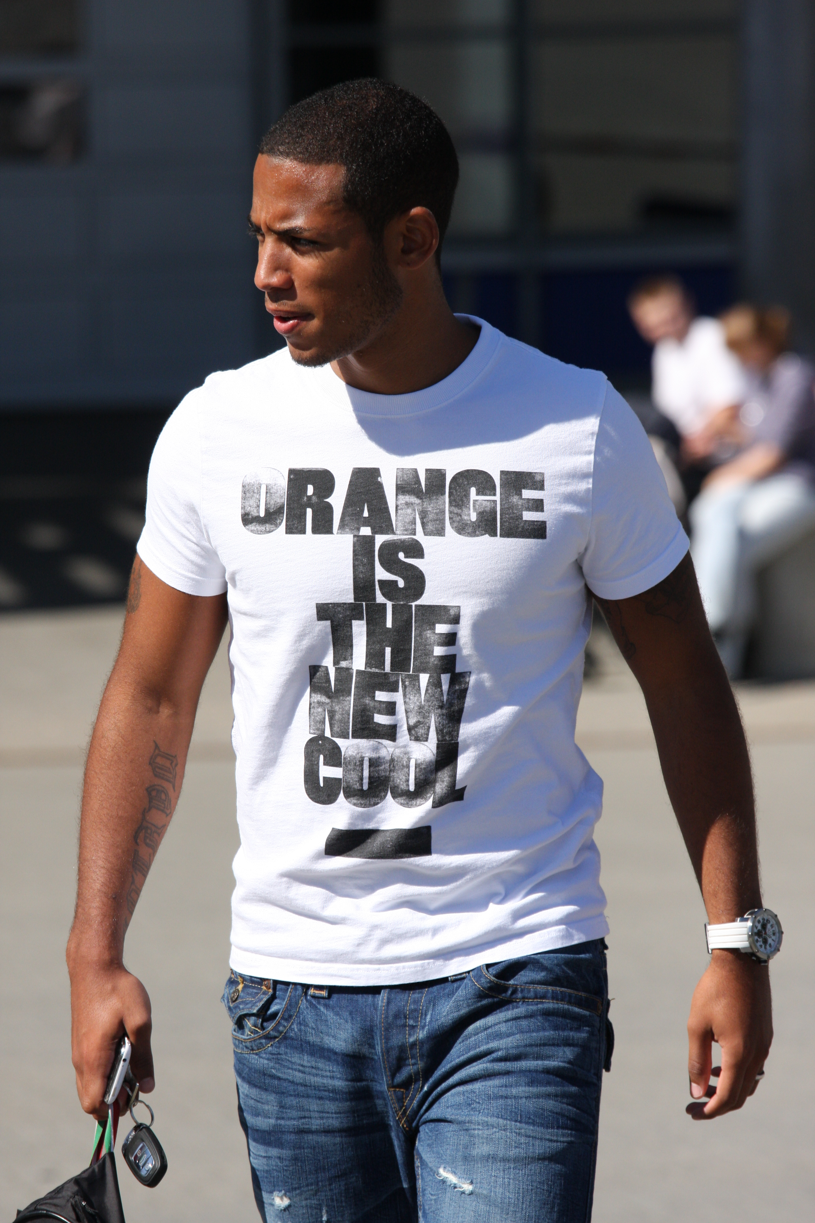 Dennis Aogo from Hamburger Sportverein.